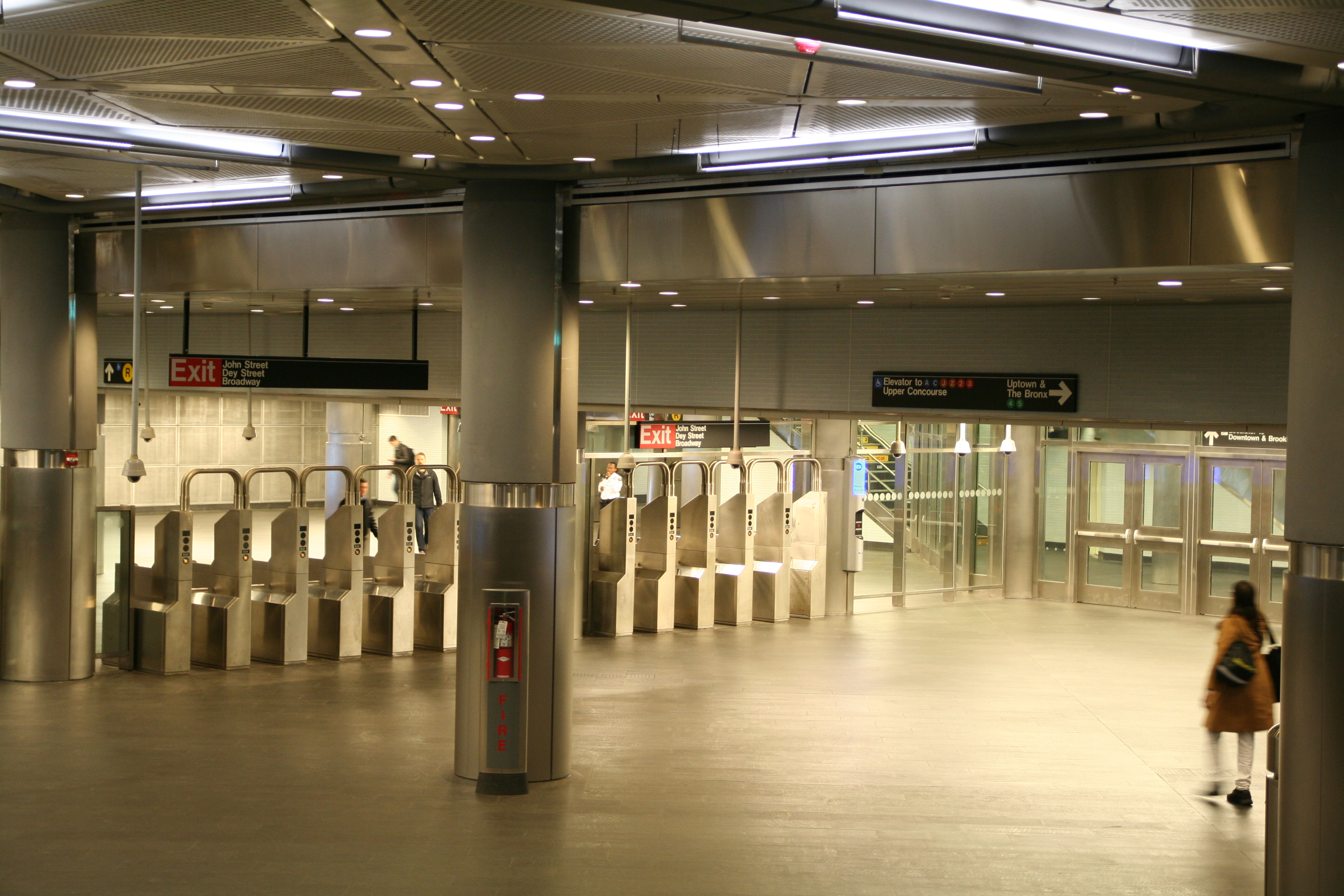 Fare control from John St and Dey Street in Fulton Building